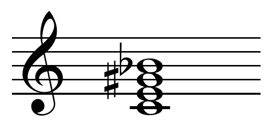 Augmented dominant seventh chord on C.